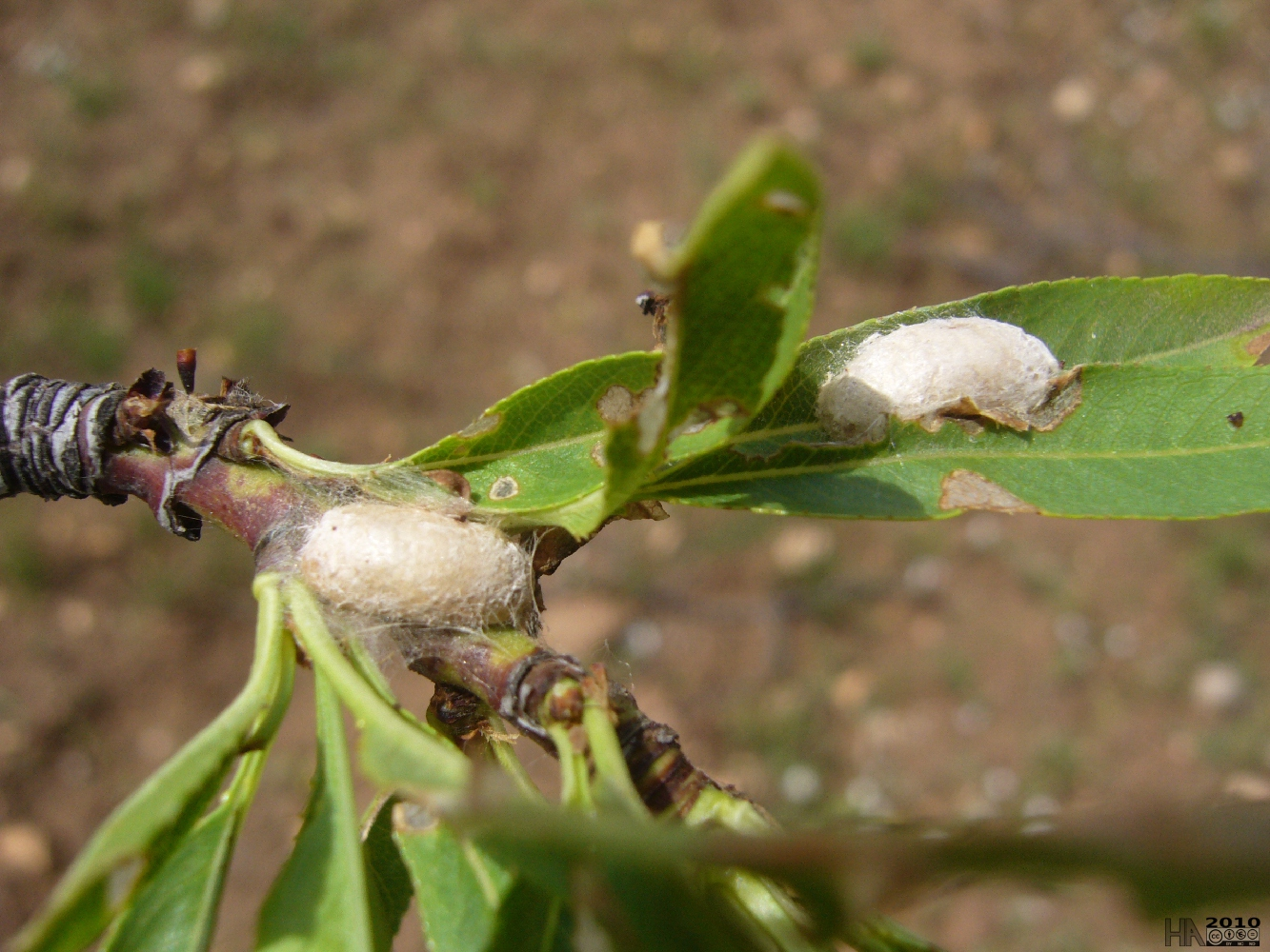 aglaope infausta, chrysalis